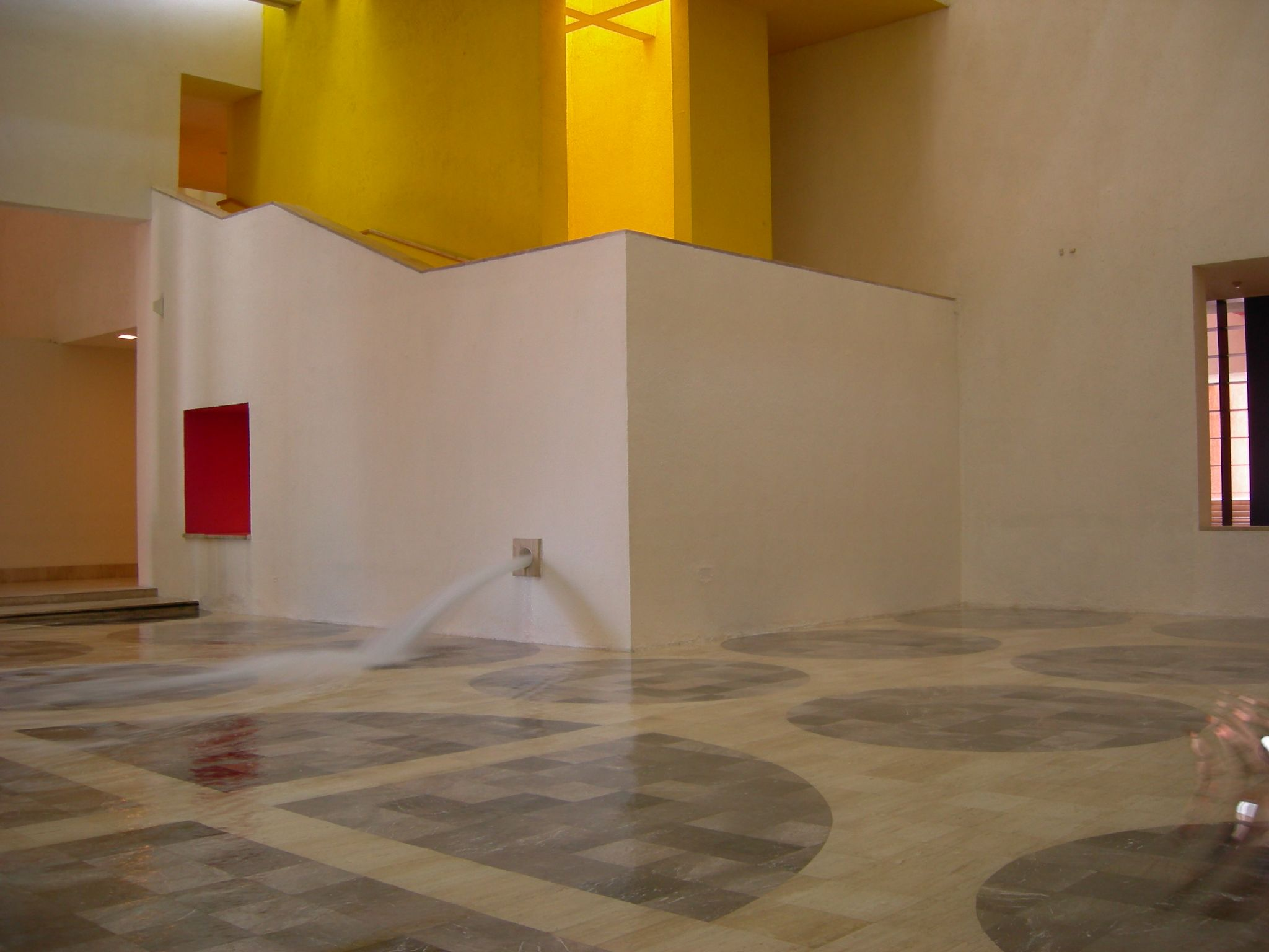 Inside of the Museum of Contemporary Art (MARCO) in Monterrey Mexico.